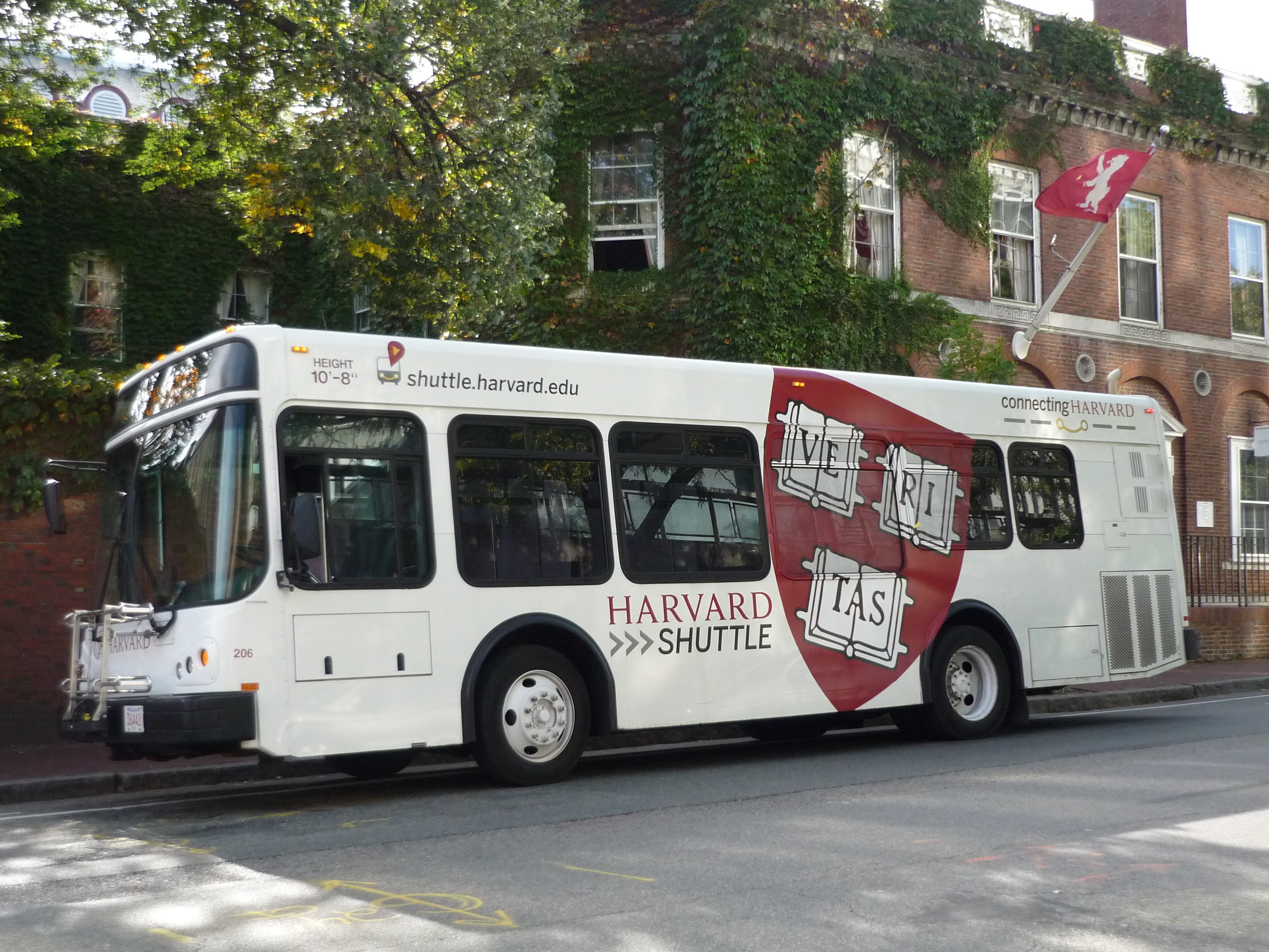 A Harvard Shuttle bus in October 2014